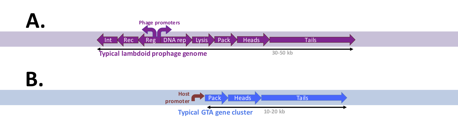 Schematic diagrams of typical prophage genomes and bacterial Gene Transfer Agent gene clusters